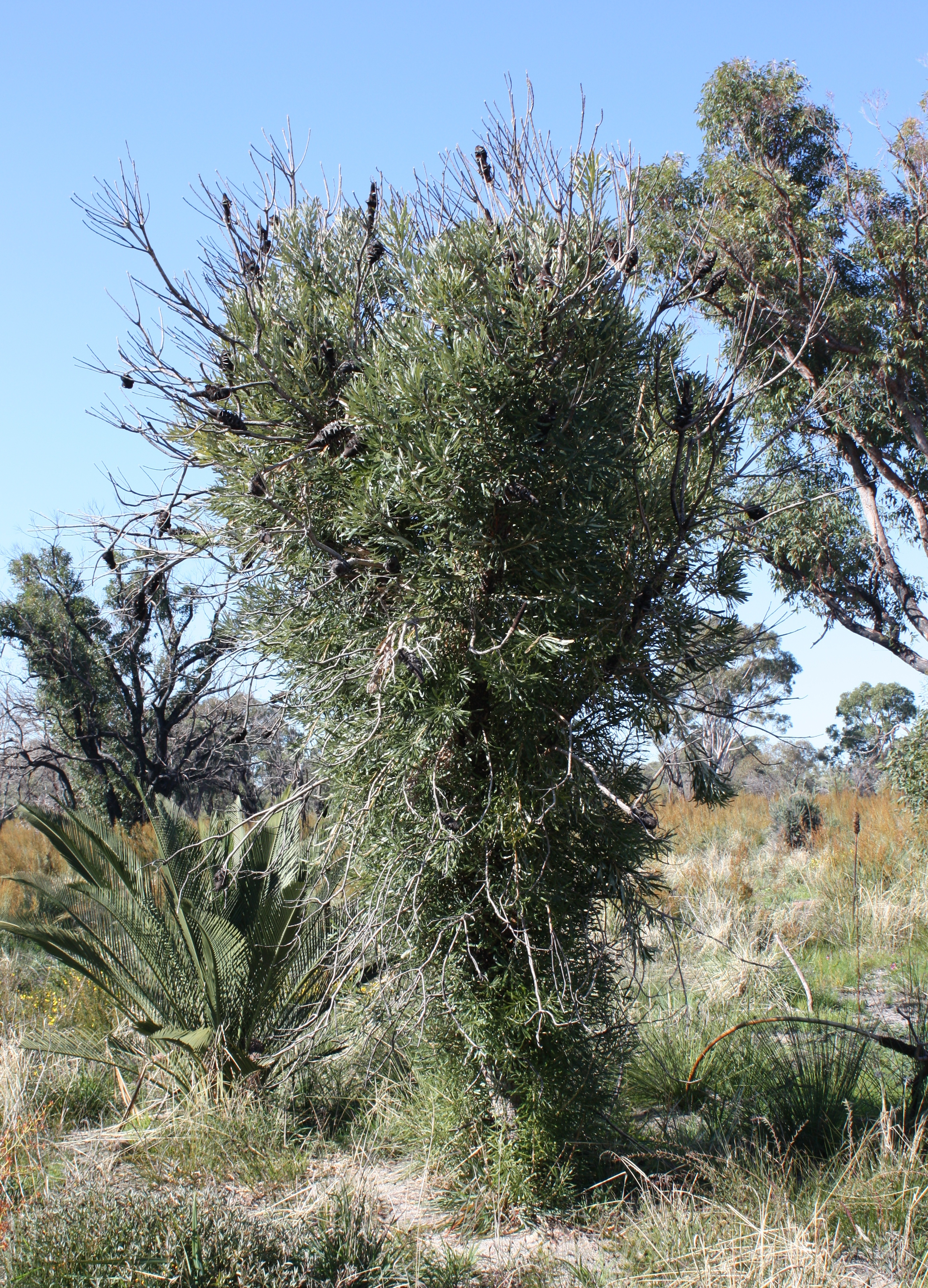 Banksia attenuata, resprouting from epicormic shoots after bushfire. Photo taken at Wireless Hill Park, Perth, Western Australia